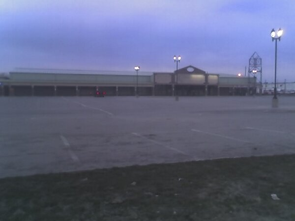 Former Commisso's Store at Barton and Nash in Hamilton, Ontario